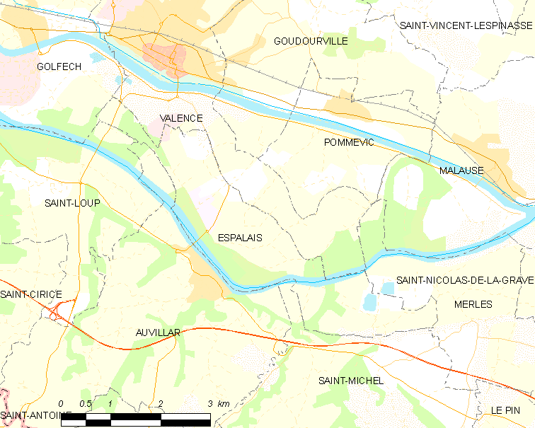 Map of French municipality Espalais